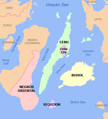 Political map of Central Visayas Region, Philippines. Showing Bohol, Cebu, Negros Oriental, Siquijor and Cebu City. Used the map template :Image:BlankMap-Philippines.png by User:TheCoffee.